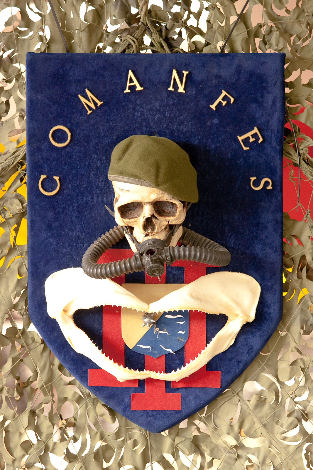 Emblema de COMANFES, antiguo nombre de la UOE.